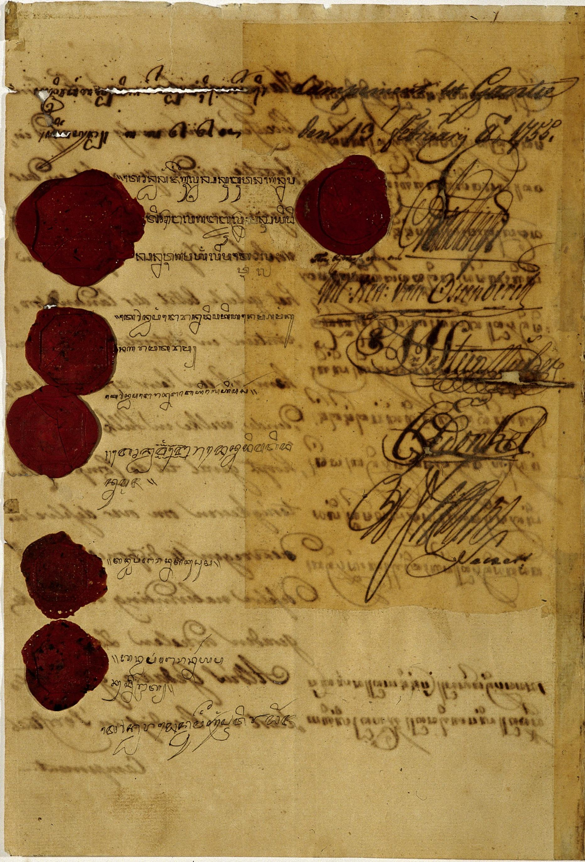 The Giyanti Treaty document, 1755